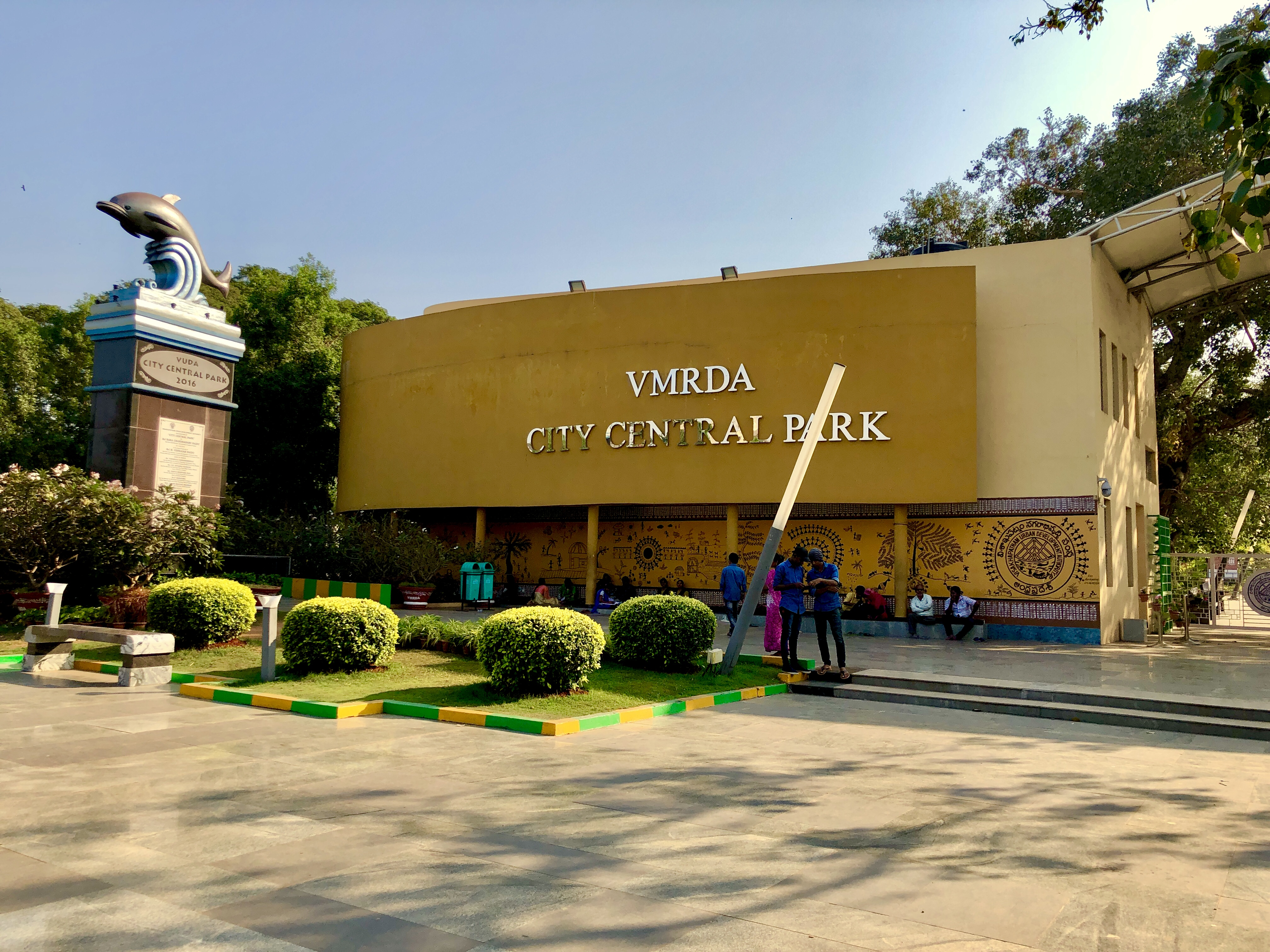 VMRDA city Central Park was located in-front of Bus station in Visakhapatnam